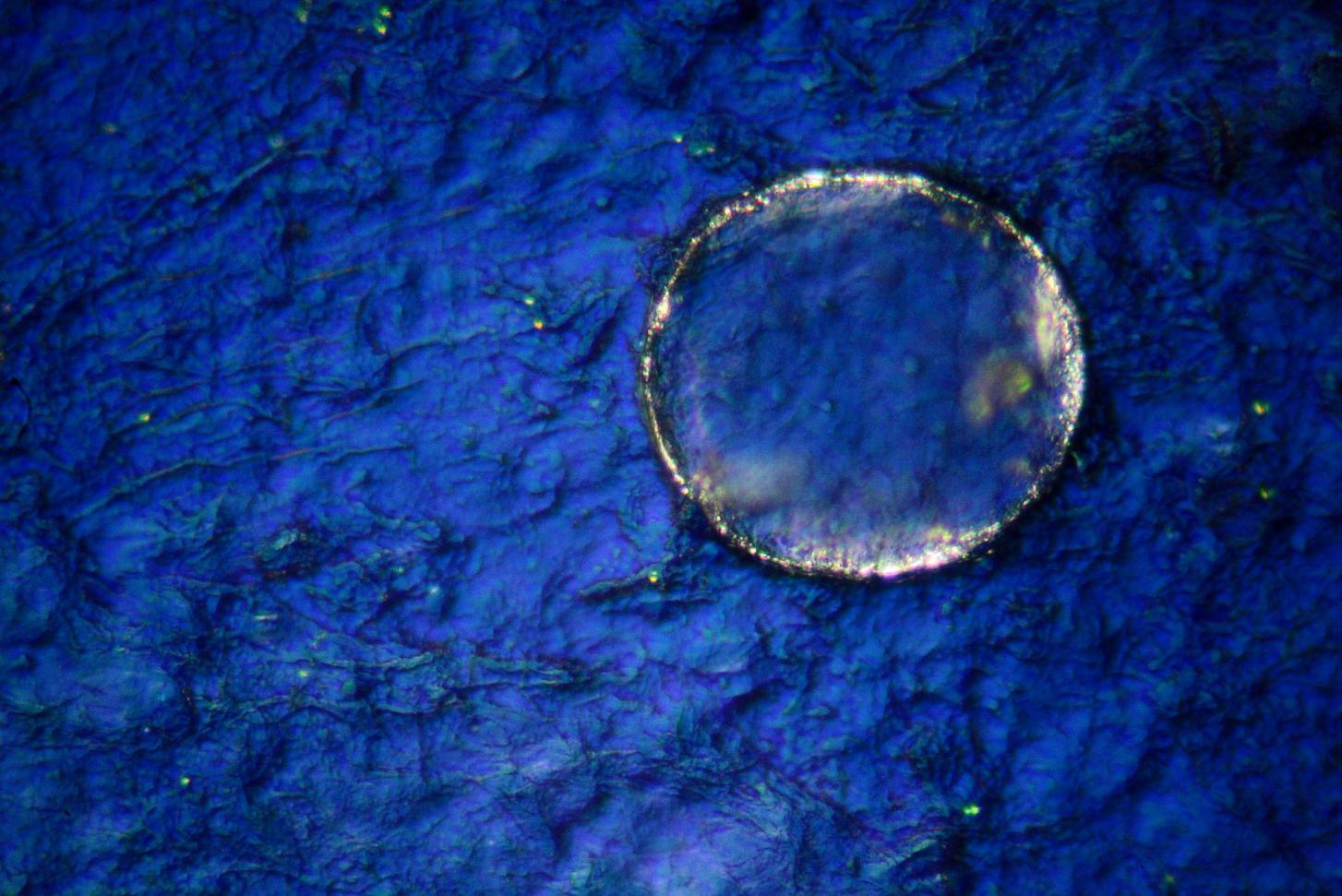 Crystalized saliva. Microscopic photography.